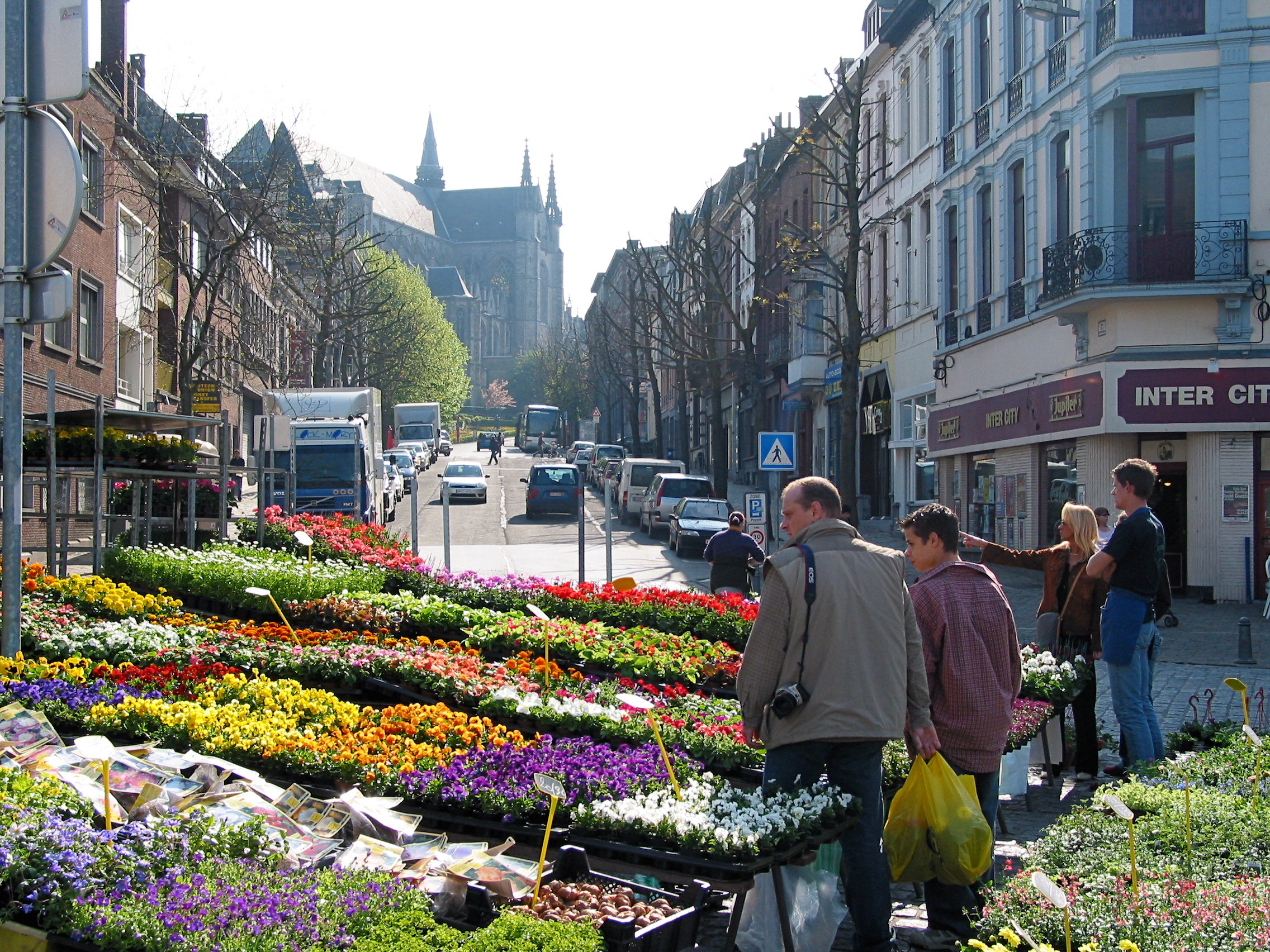 Mons (Belgium), the Sunday flower market.